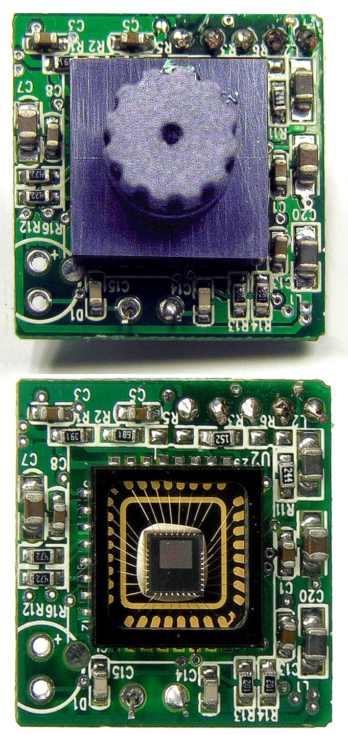 This is a 'Sweex miniwebcam USB' with its casing removed. The top image shows it with lens in place - it is fully working in the upper photo - while the bottom image shows the CMOS image sensor without lens.